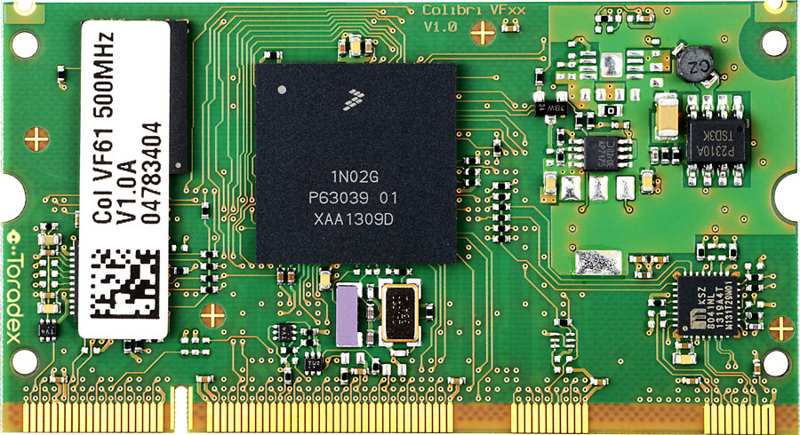 Toradex Colibri VF61 Freescale Vybrid VF6xx Computer on Module product image